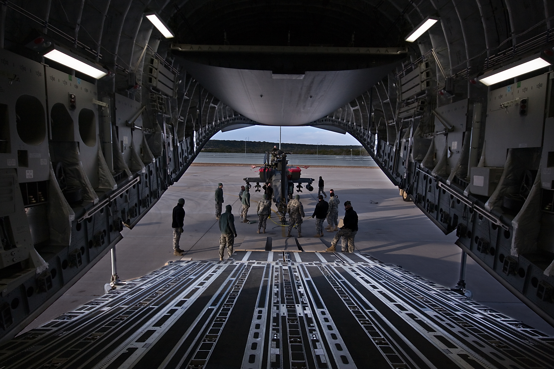 Soldiers from 1st Attack Reconnaissance Battalion, 227th Aviation Regiment, 1st Air Cavalry Brigade, 1st Cavalry Division, begin loading an AH-64D Apache attack helicopter on an Air Force C-17 Globemaster III, Robert Gray Army Airfield, Fort Hood, Texas, Jan. 10. Loading of a single Apache on the C-17 requires the 4 main rotor blades, stabilator and all radio antennas to be removed from the helicopter. The Apache is being loaded onto the C-17 as training en route to Fort Irwin, Calif., for a month-long rotation at the National Training Center. See more at Army.mil